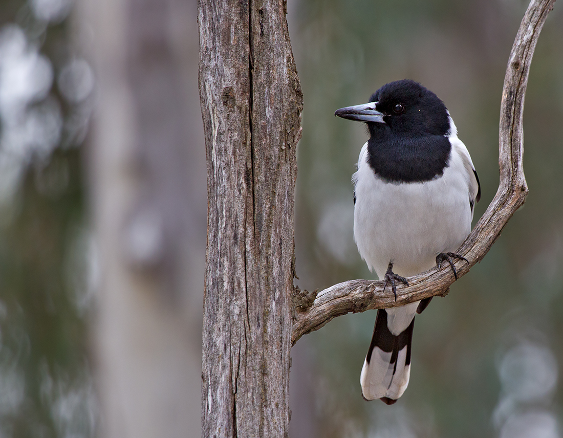 Gulpa Island National Park NSW